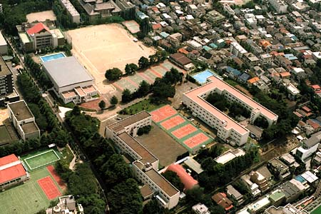 筑波大学附属中学校・高等学校（東京都文京区）、（空撮） Jr. and Sr. High School at Otsuka, University of Tsukuba (筑波大学附属中学校・高等学校), in Bunkyo, Tokyo, Japan (Aerial photographing)